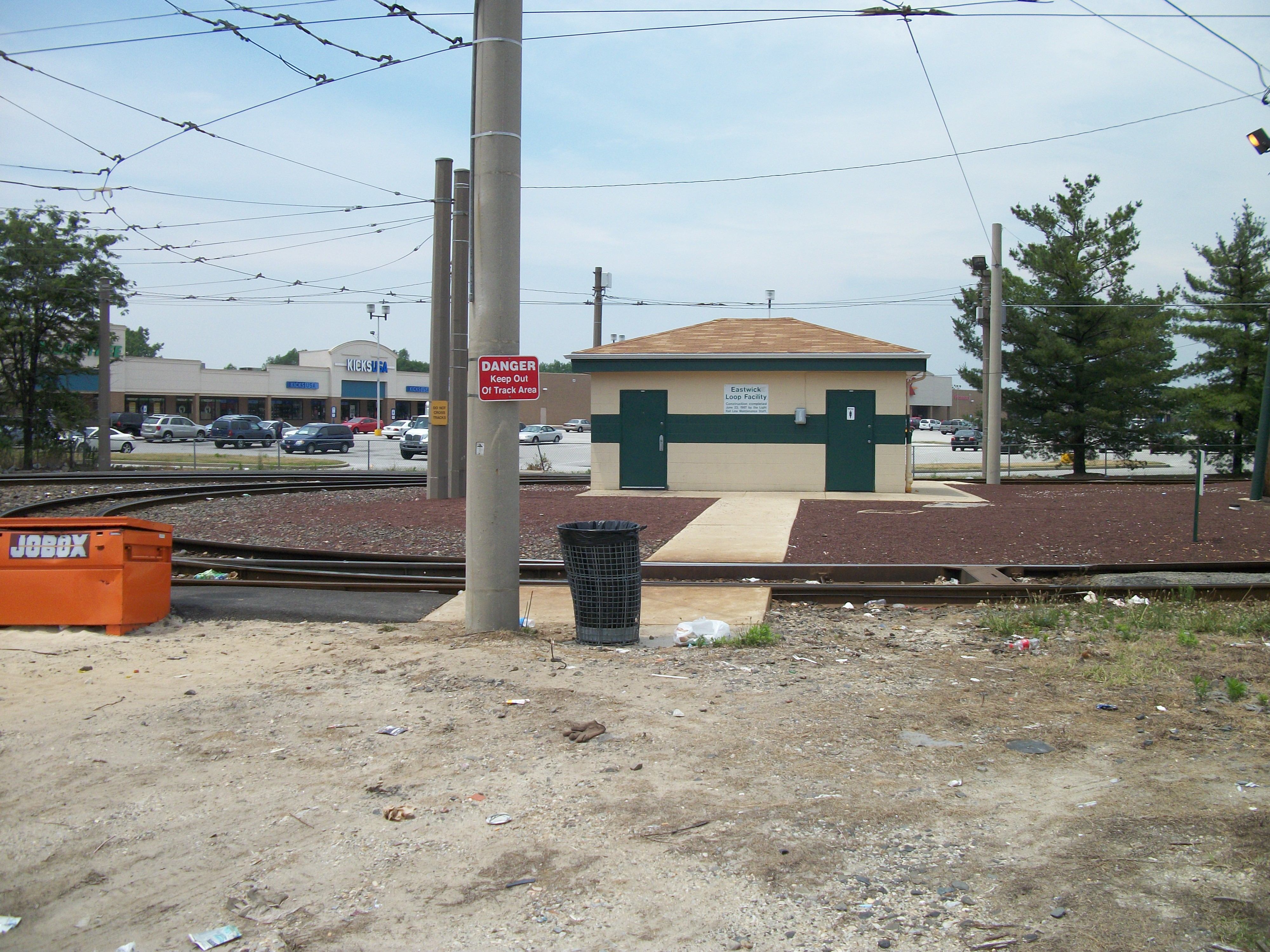 What passes for the station house at the Eastwick Loop, the terminus of SEPTA Route 36, is apparently a public bathroom in the center of the loop itself.